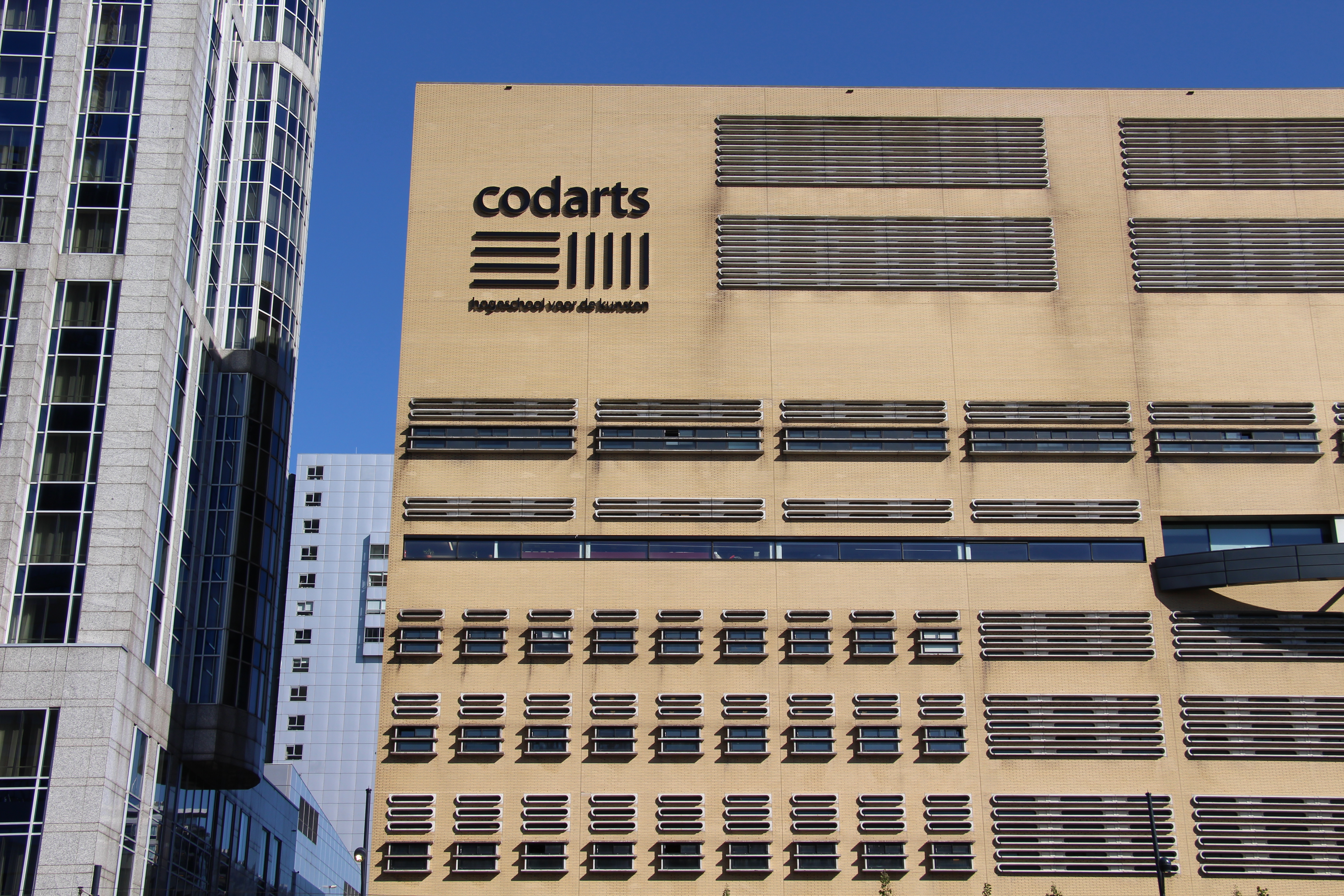 Cool. Kruisplein Codarts Rotterdam, university of the arts, trains talented and driven dancers, musicians and circus performers to become dedicated and inspiring artists, leaders and facilitators, ready to spread their wings in a dynamic, international context. Codarts is a vocational university. Arch. Ector Hoogstad Architecten 1997-2000.